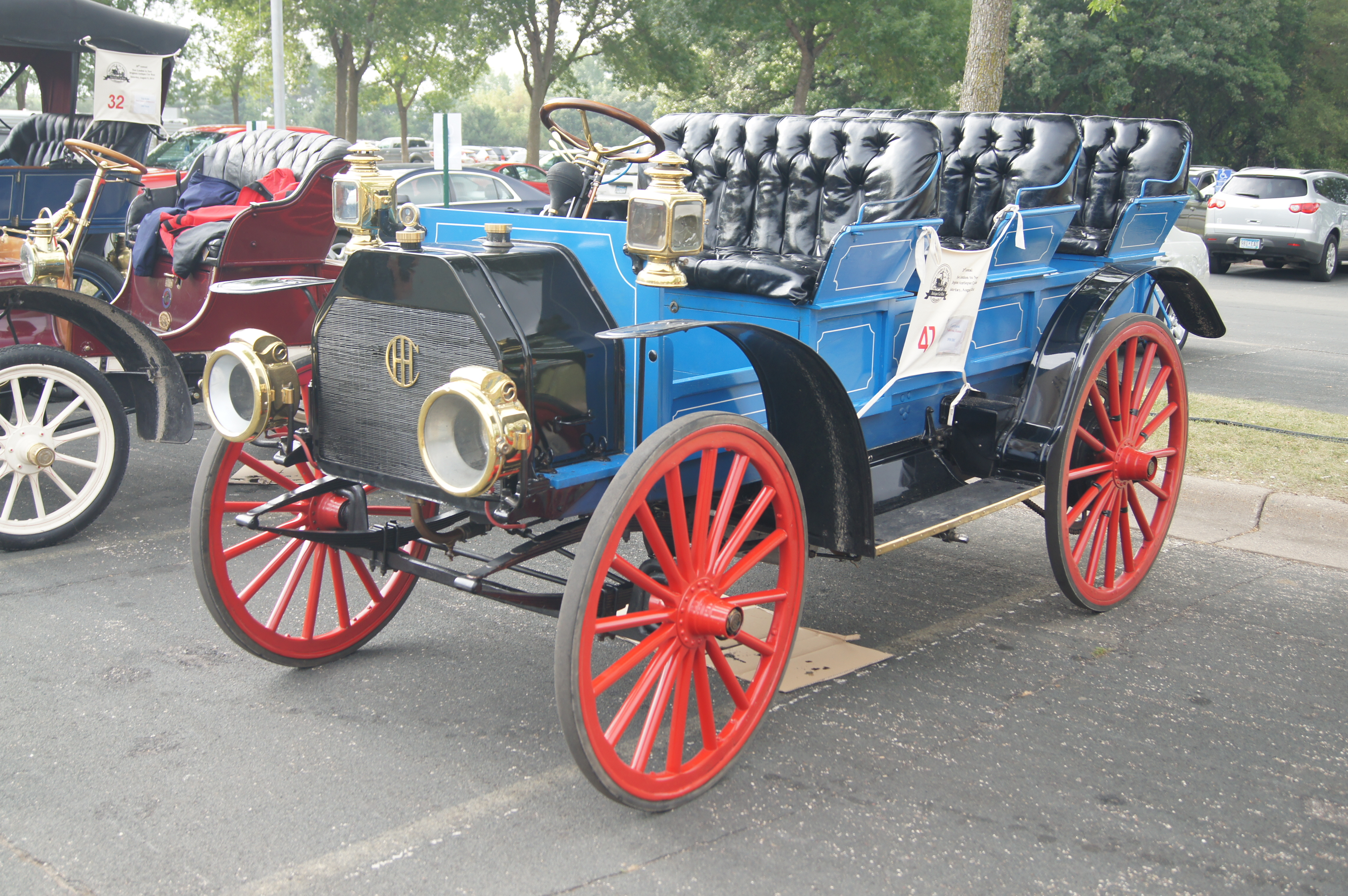 International Harvester vehicle Long Lake Regional Park New Brighton Minnesota Mile 118.5